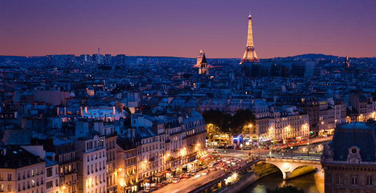 نمایی از شهر پاریس